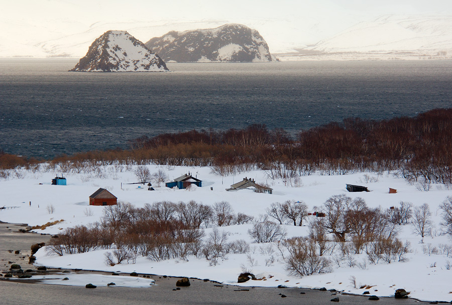 Kurile Lake, near the source of the Ozernaya river in Kamchatka, Russia, with a camp of the Kamchatka Research Institute of Fisheries and Oceanography (KamchatNIRO) in the foreground.